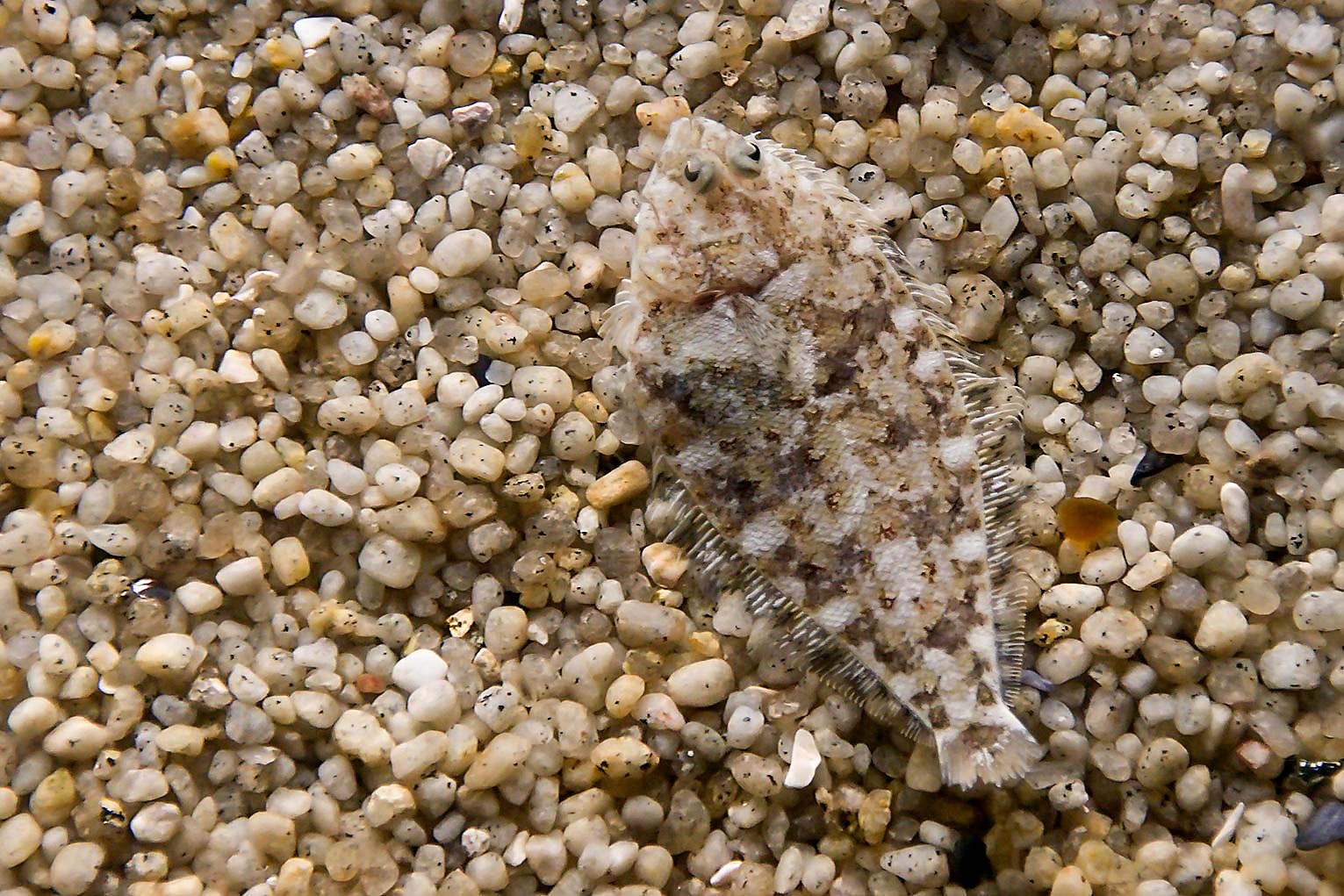 A flounder blends in with its surroundings.